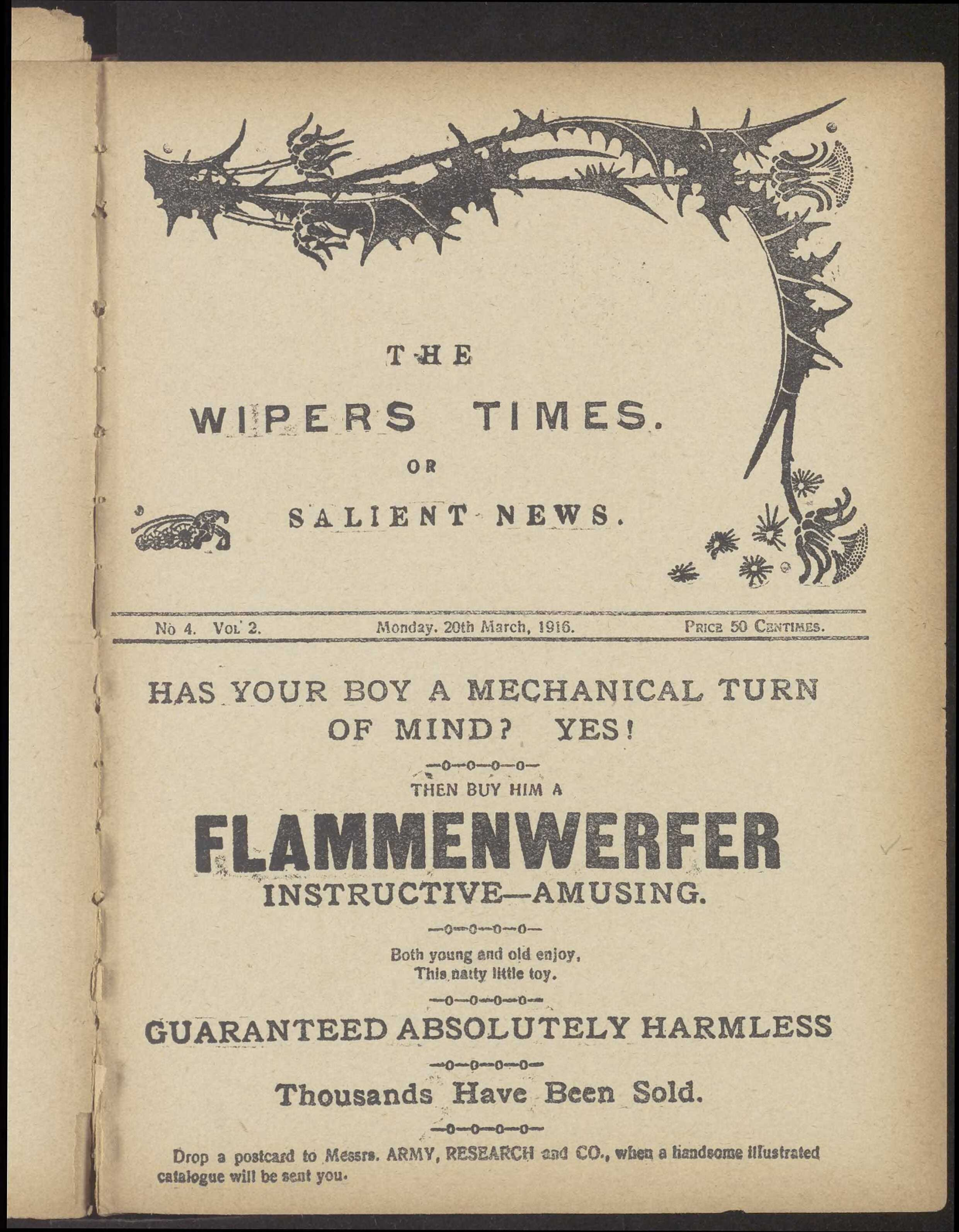 "The Wipers Times", Ypres 1916, no.4, vol. 2, p. 1. The first lines read: "Does your boy have a mechanical turn of mind? Yes! / Then buy him a flammenwerfer [flamethrower] / Instructive—Amusing.